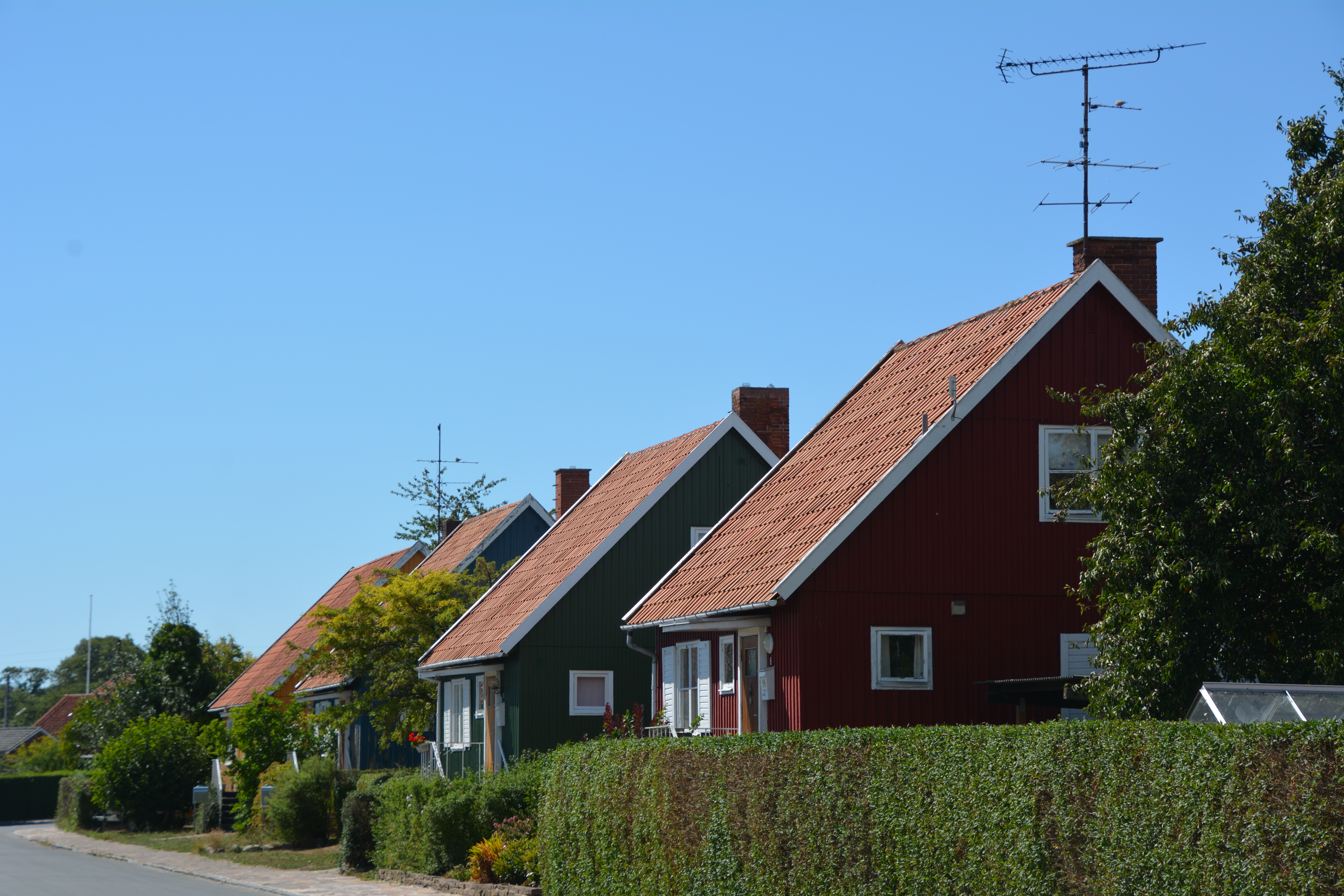 Svenskehusena i Nexö, Hedtoftsvej